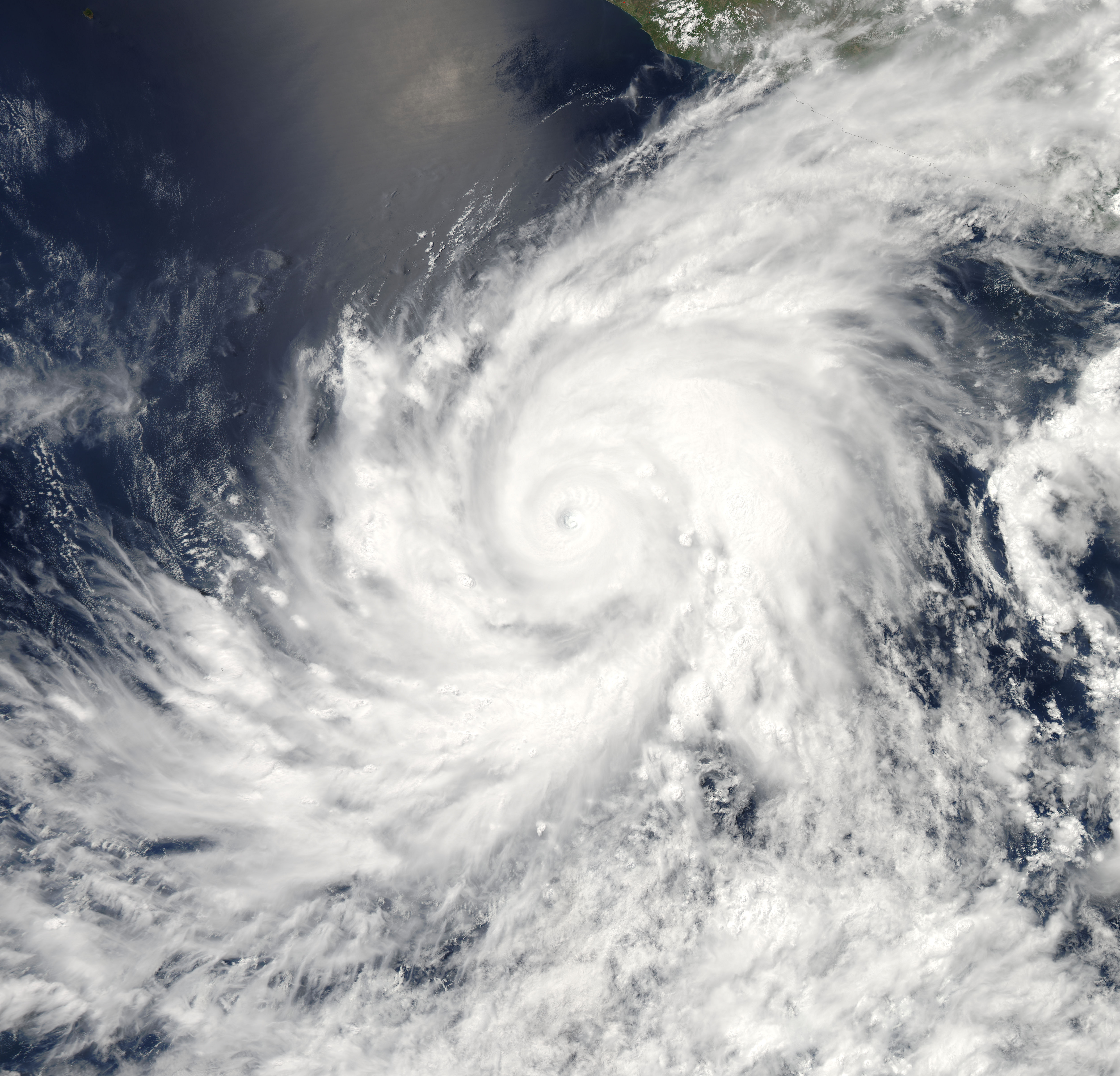 Hurricane Blanca (02E) off Mexico: At 1:35 p.m. local time (20:25 Universal Time ), on June 3, 2015, the Moderate Resolution Imaging Spectroradiometer (MODIS) on NASA’s Aqua satellite acquired this natural-color image of Hurricane Blanca off the coast of Mexico. The storm is the earliest second hurricane on record for the eastern Pacific Ocean. After intensifying rapidly, Blanca then weakened while passing over an area of upwelling. Forecasters expect the storm to strengthen as it moves north in the coming days.[1]